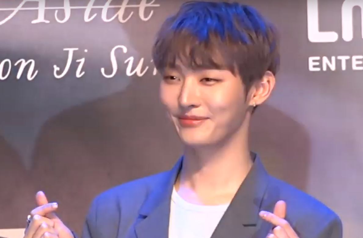 A picture of singer Yoon Ji-sung in the release showcase of the album“Aside” on 20 February 2019.